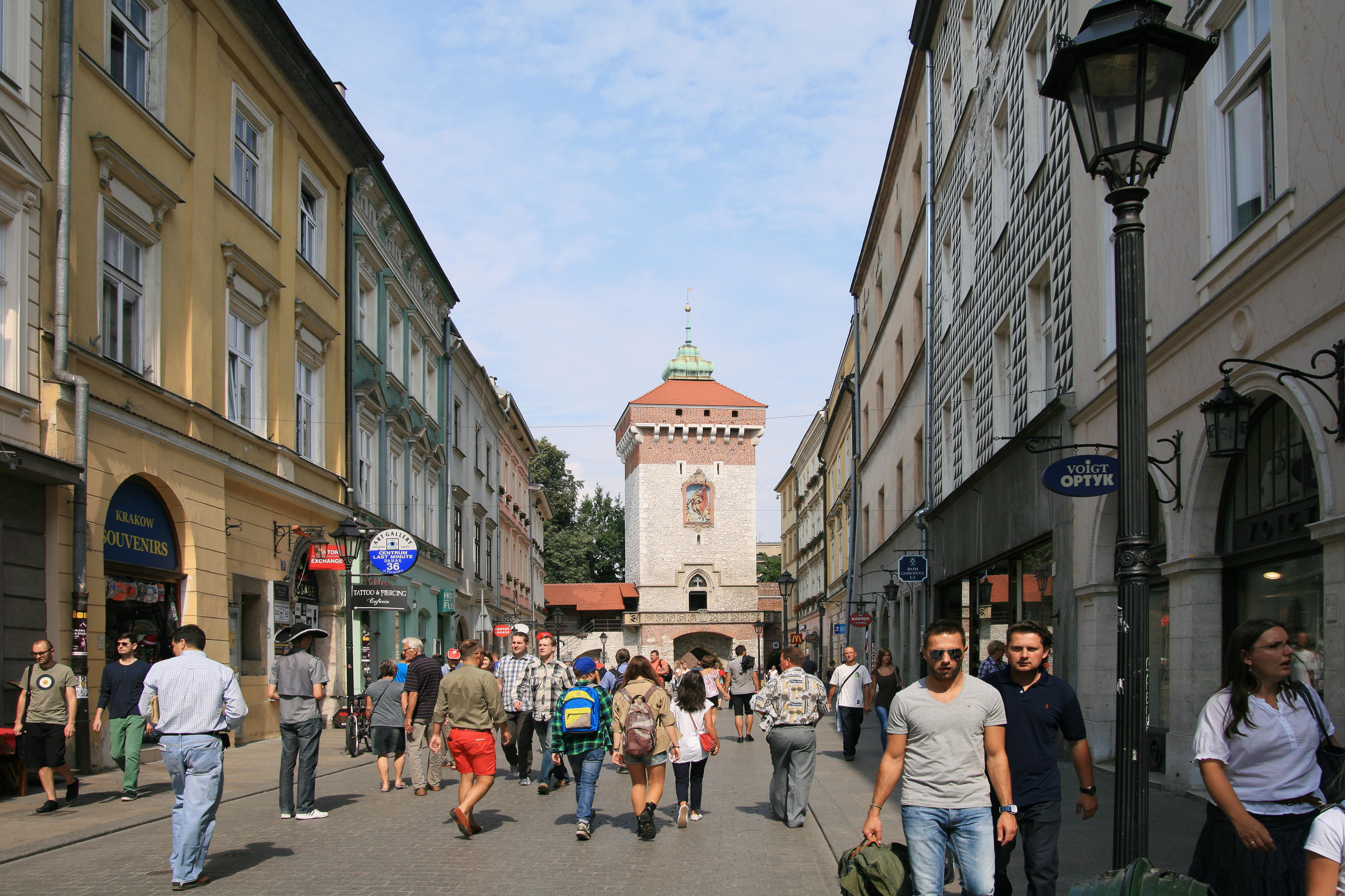 Floriańska Street, Krakow